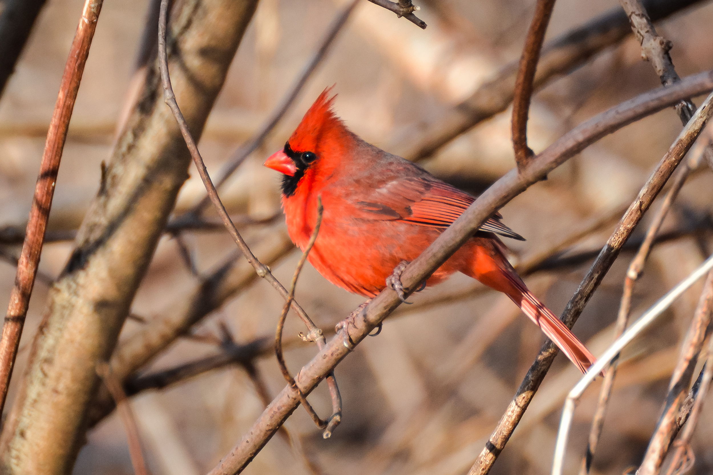 A male Northern Cardinal (Cardinalis cardinalis) at Arnold Arboretum, Massachusetts, United States.